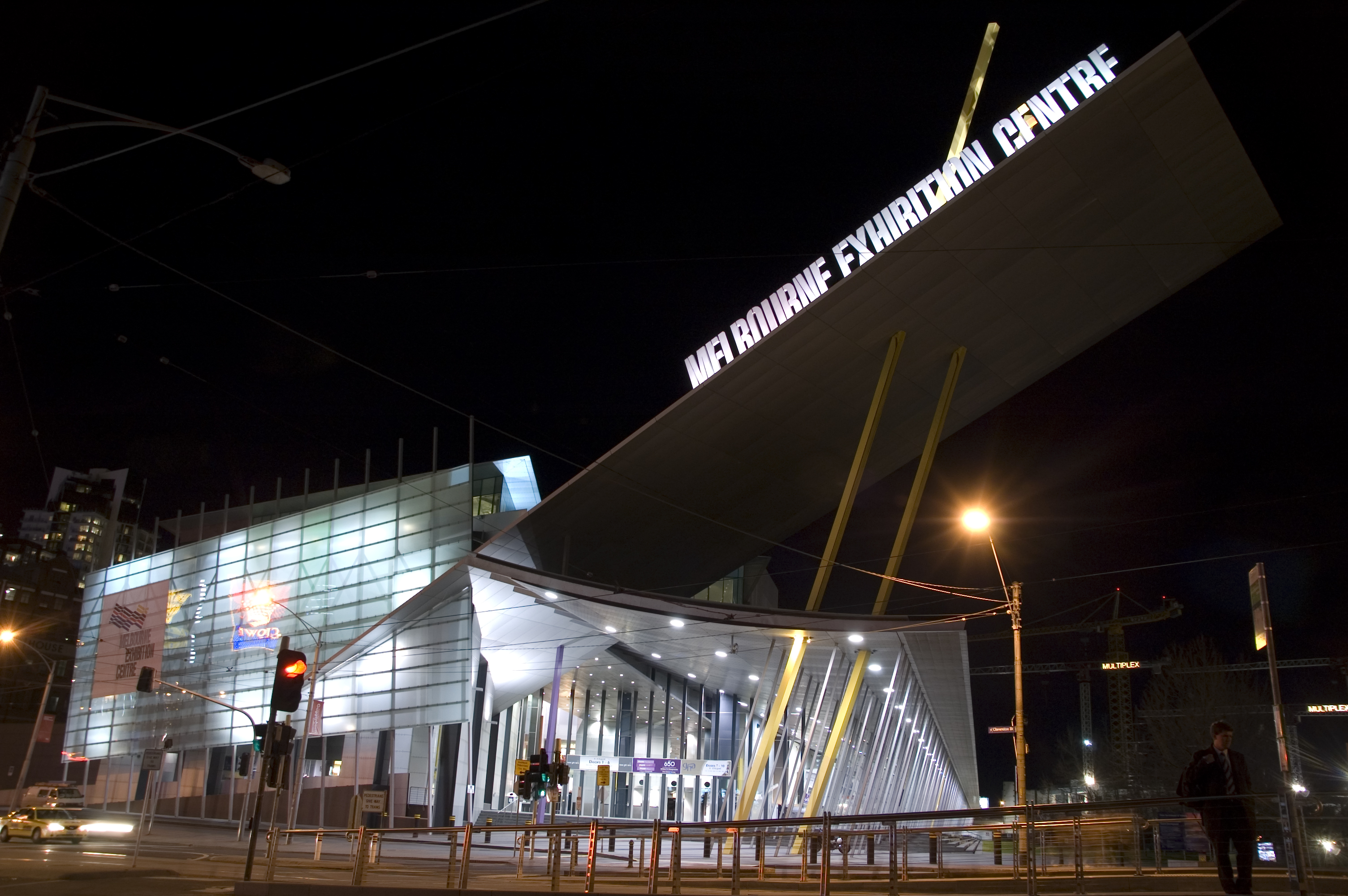 Melbourne Exhibition and Convention Centre at night. The new convention centre is under construction in the background.